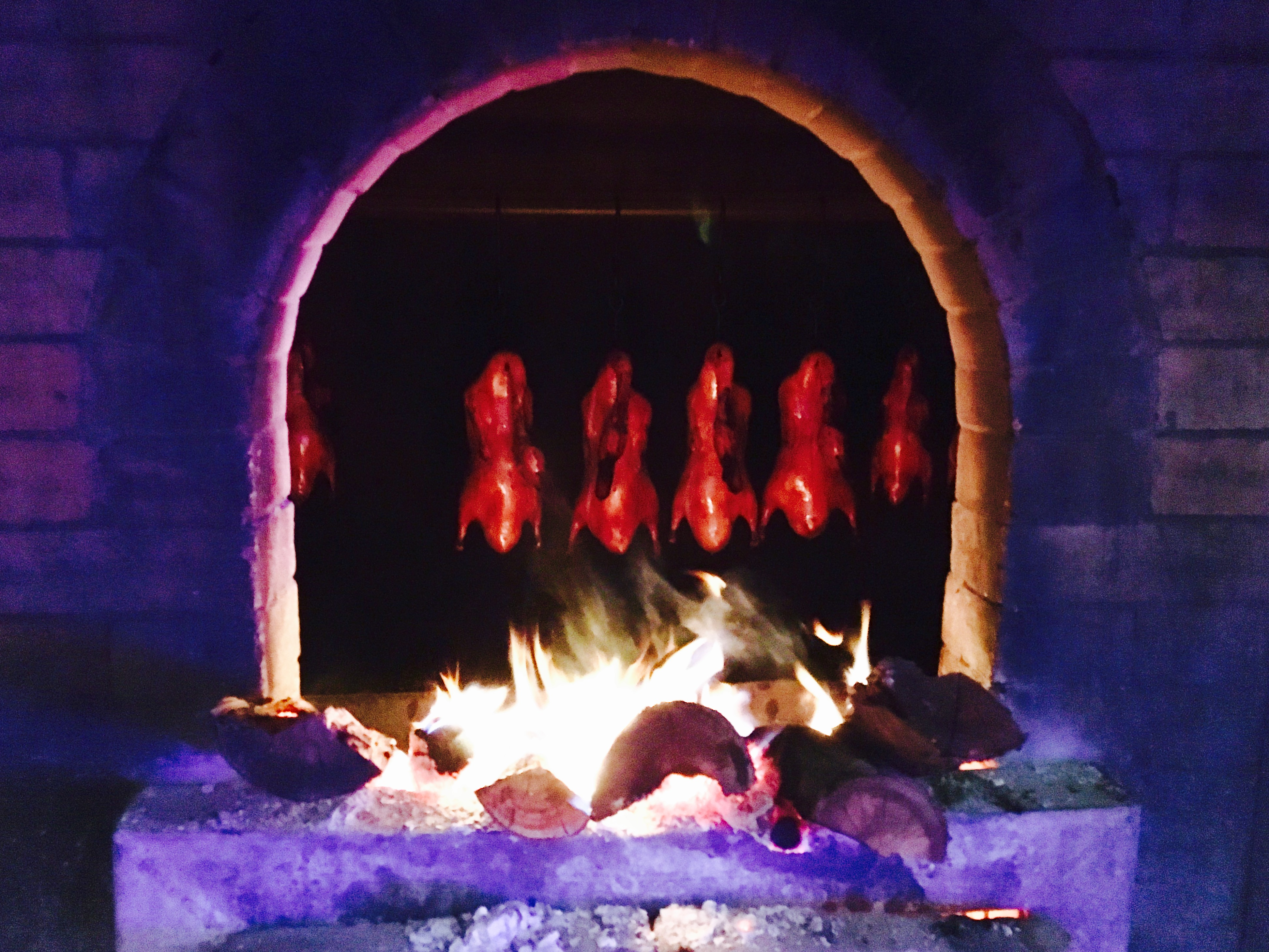 Beijing Roast Duck in oven